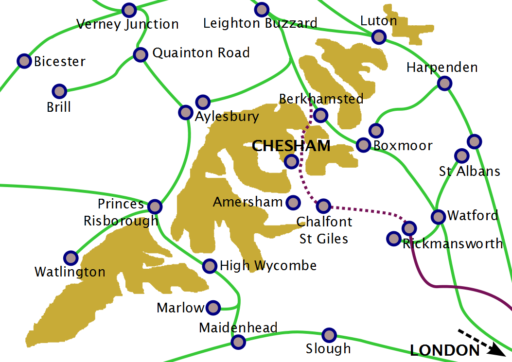 Proposed 1880s extension from the Metropolitan Railway to the London and North Western Railway via Chesham